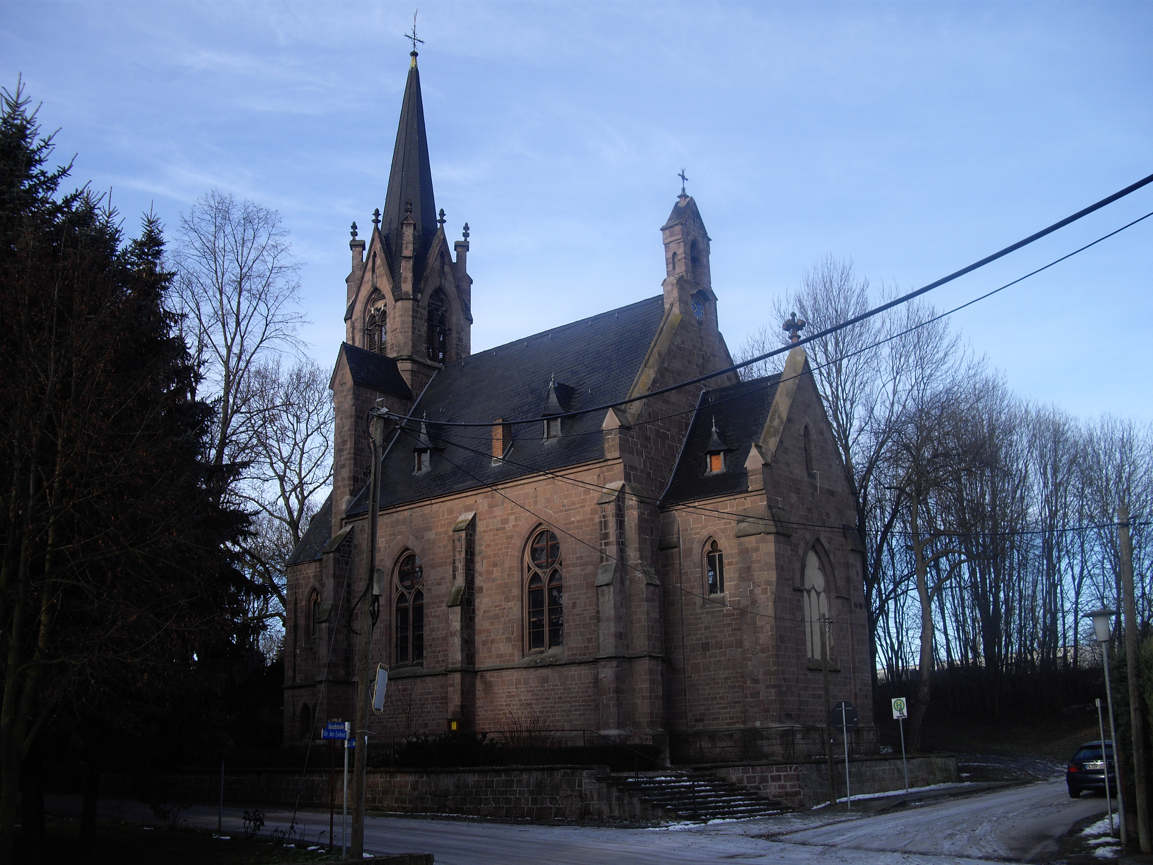 the church of Hübitz